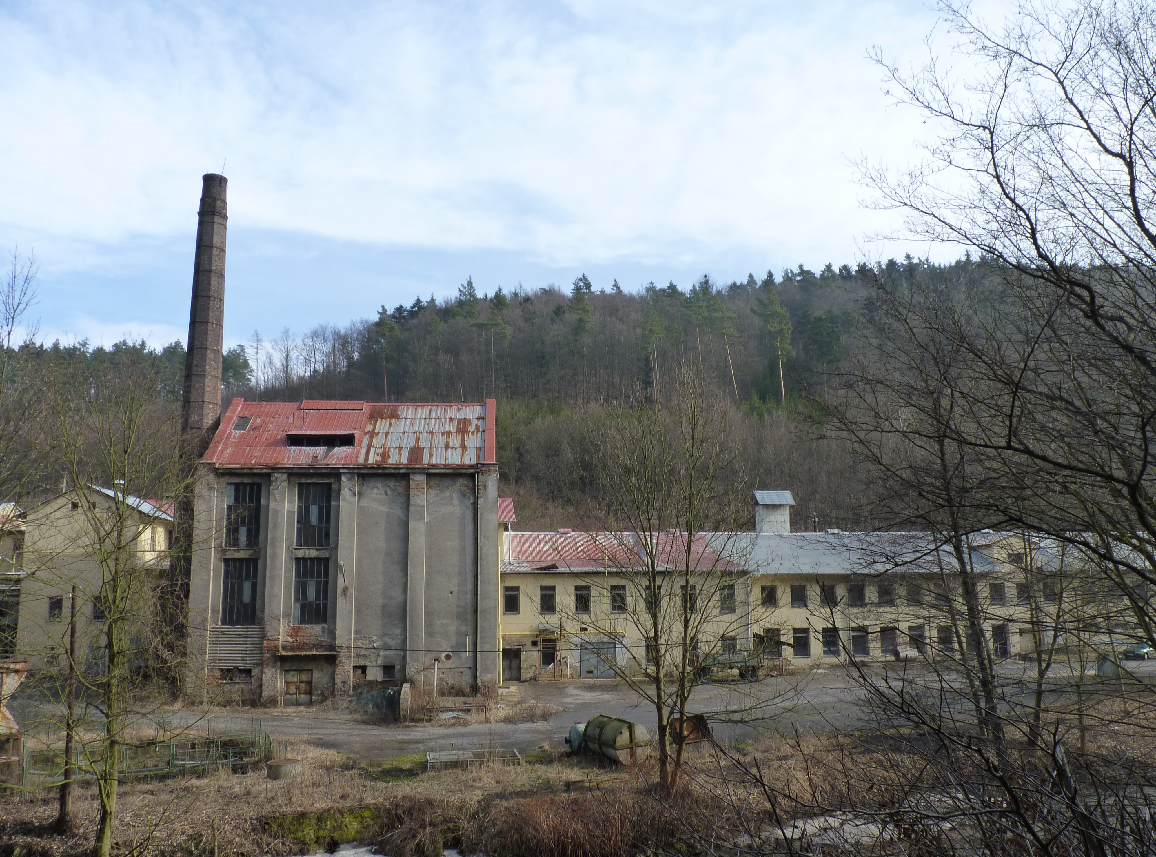 Factory. Brno-Country District, South Moravian Region, Czech Republic